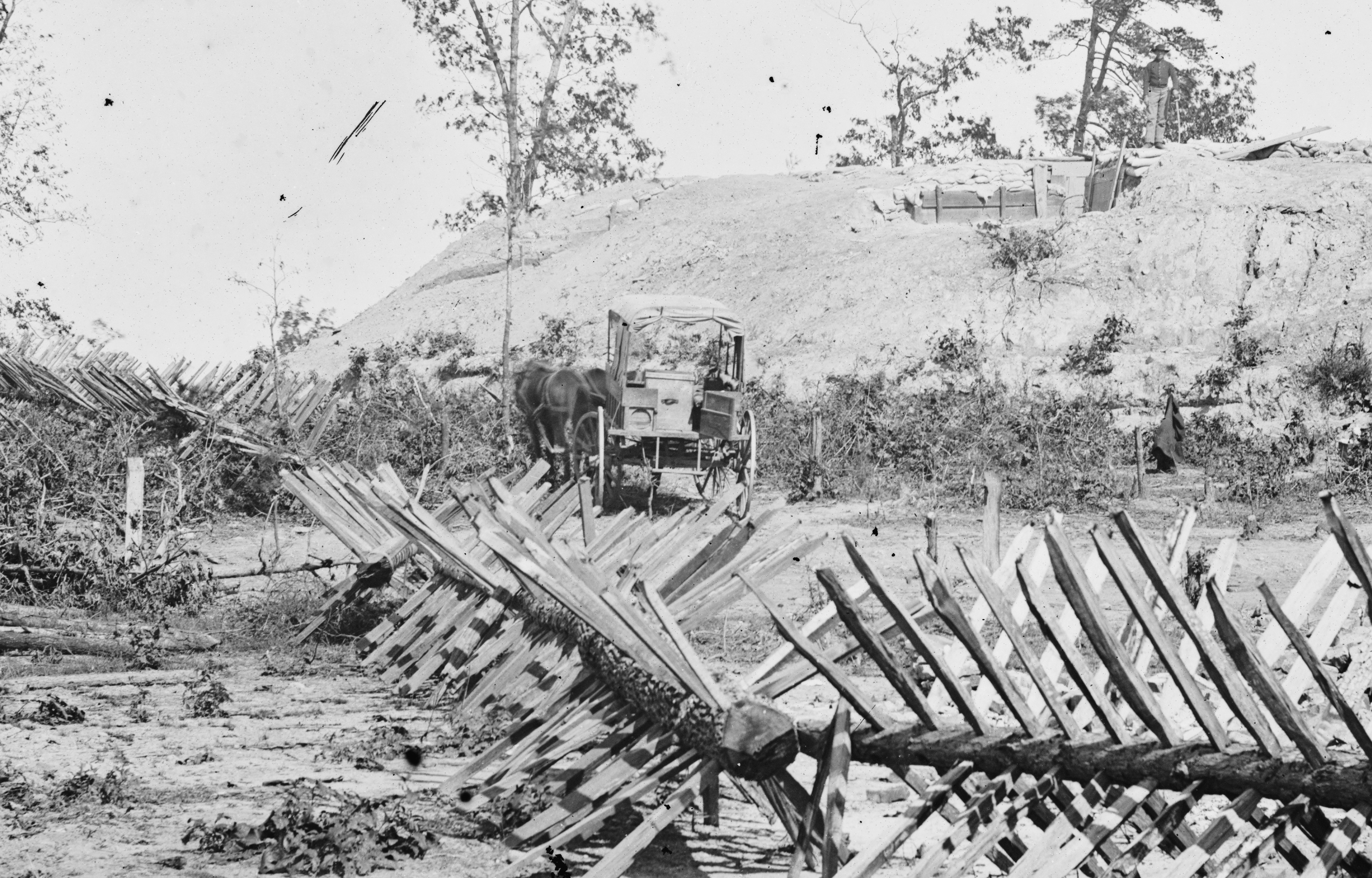 Title: Atlanta, Georgia. Confederate fortifications. (shown is [Barnard's] wagon and portable darkroom) Physical description: 1 negative (2 plates)